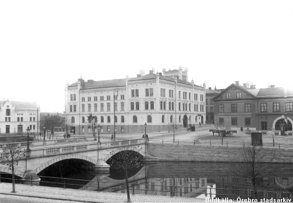 The hotel "Stora hotellet", Örebro, Sweden, 1903